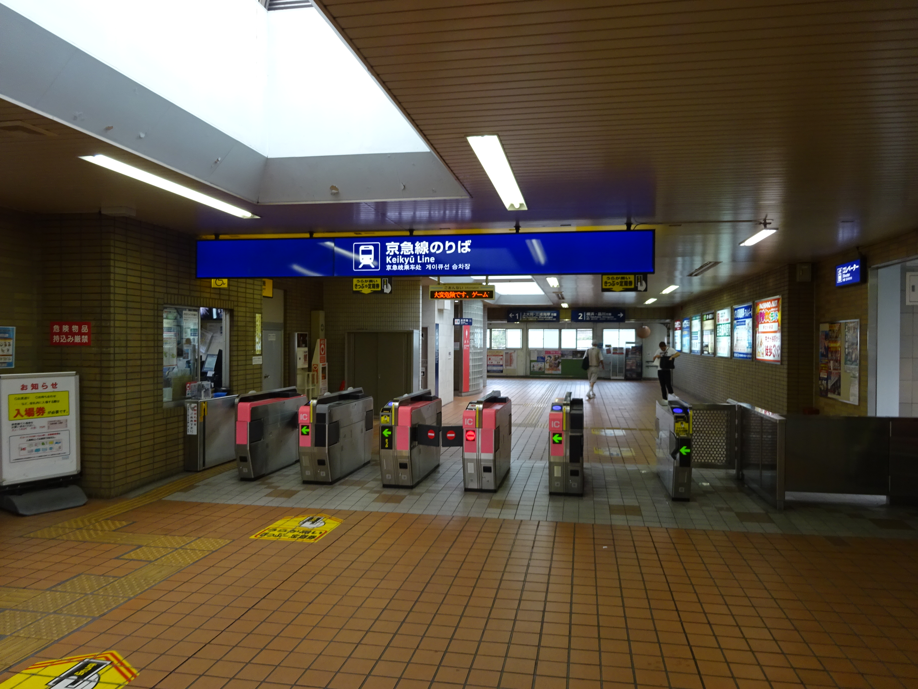 Ticket barriers of Gumyōji Station (Keikyu)